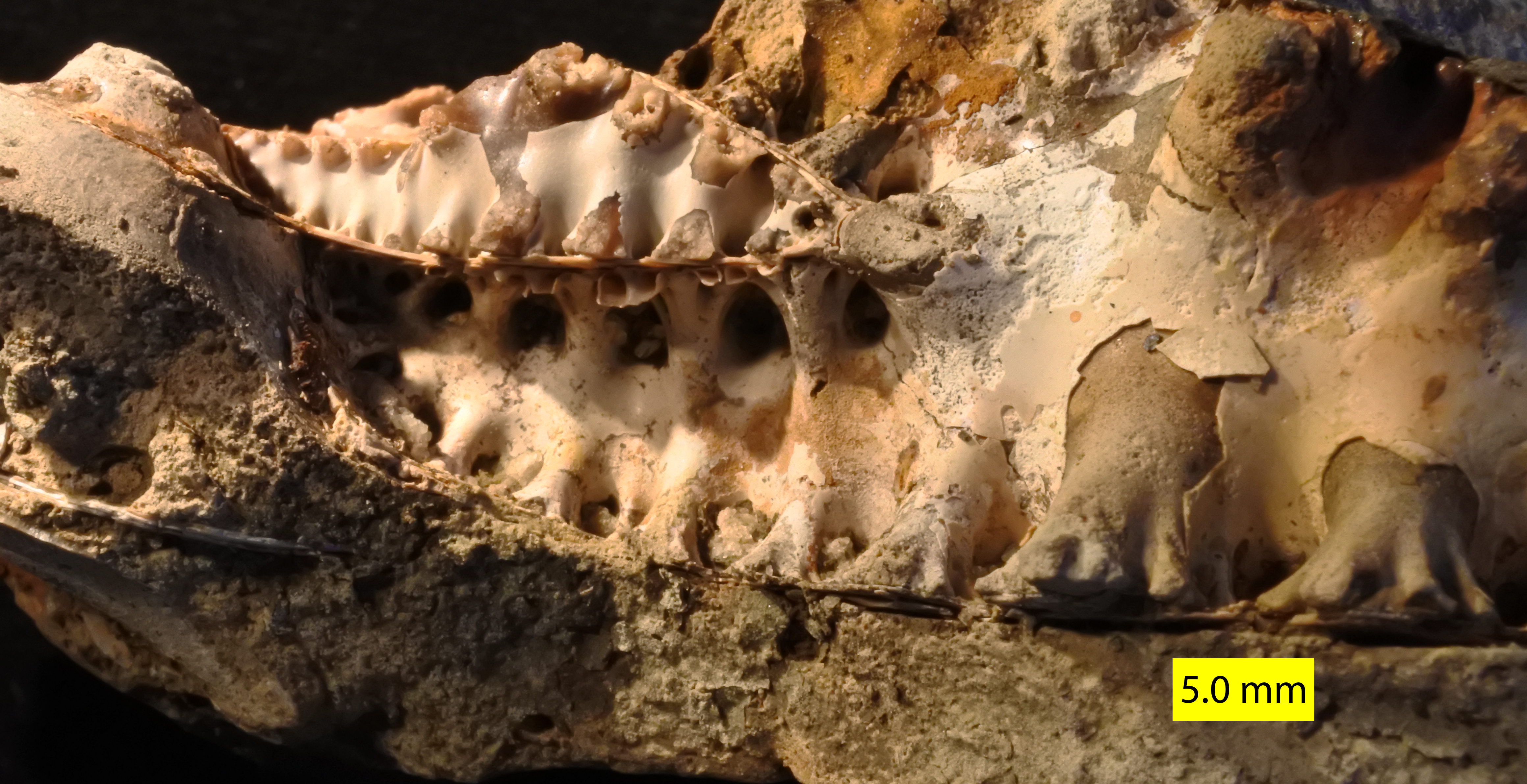 Transverse cut through an ammonite from the Pierre Shale, Upper Cretaceous of South Dakota, lying on the side.